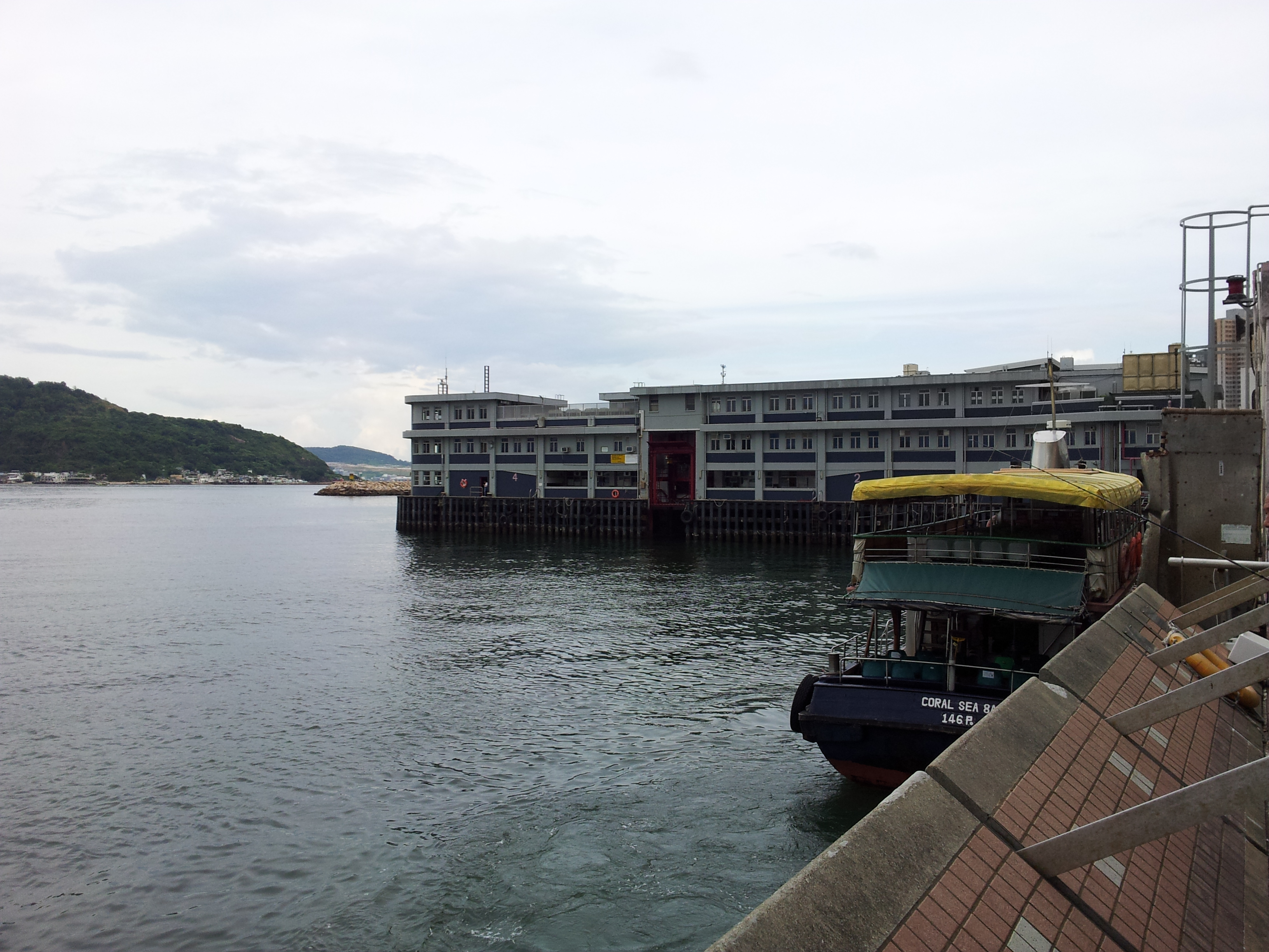 old and new sai wan ho pier